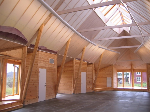 Kainun instituutti in Pyssyjoki, Norway